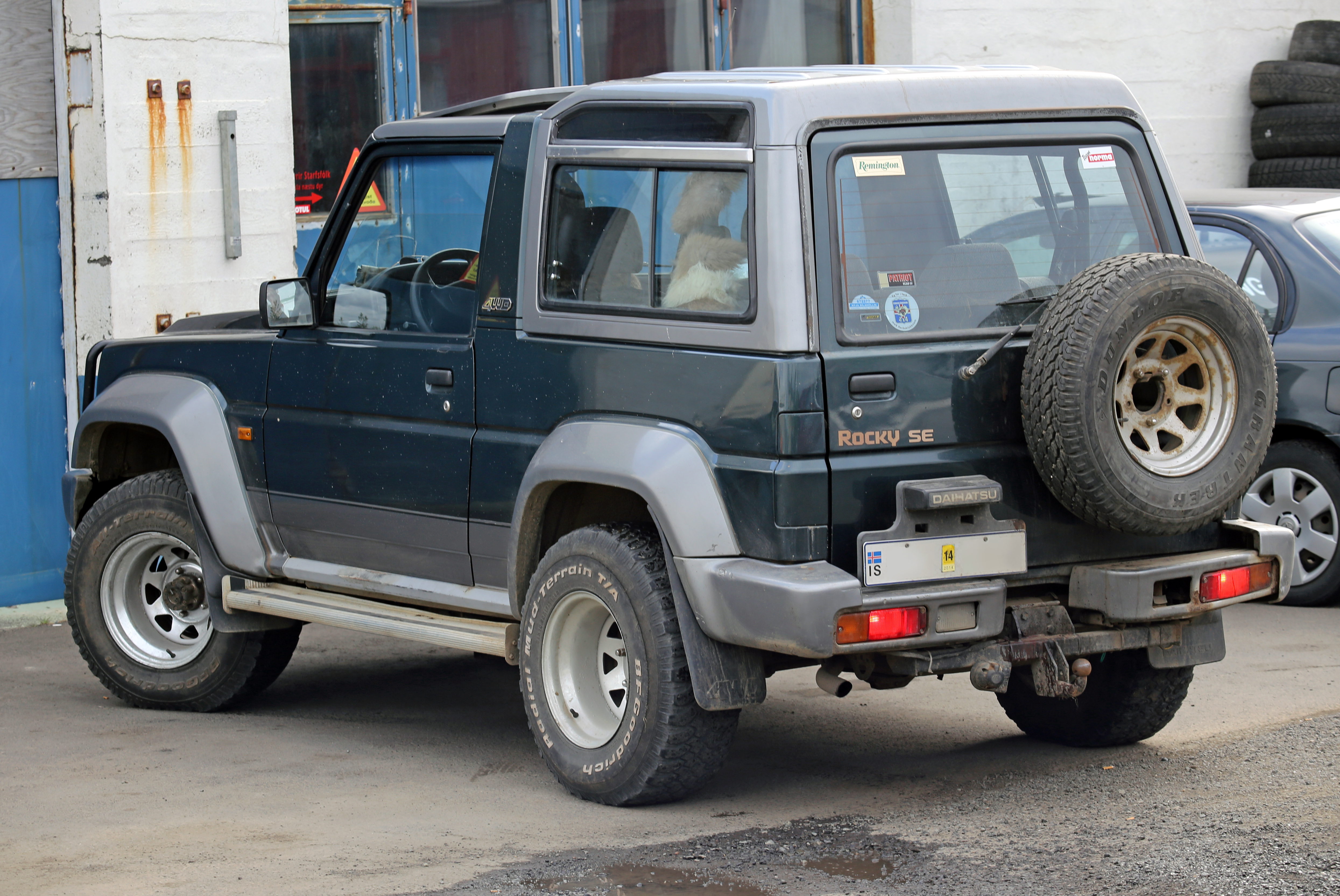 1995 Daihatsu Rocky (aka Rugger) SE Wagon 2.8TD, chassis code F78.